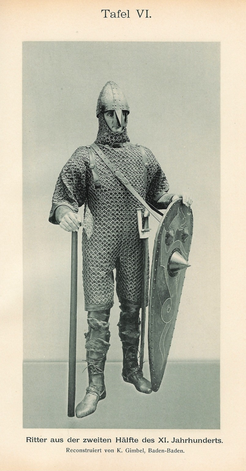 Hypothetic reconstruction of High Middle Ages ring mail by Karl Gimbel, ca. 1890 (Bayeux tapestry)